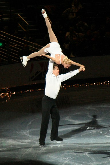 Dorota Siudek (née: Zagórska) and Mariusz Siudek perform a lift during the 2006 Skate America exhibition.